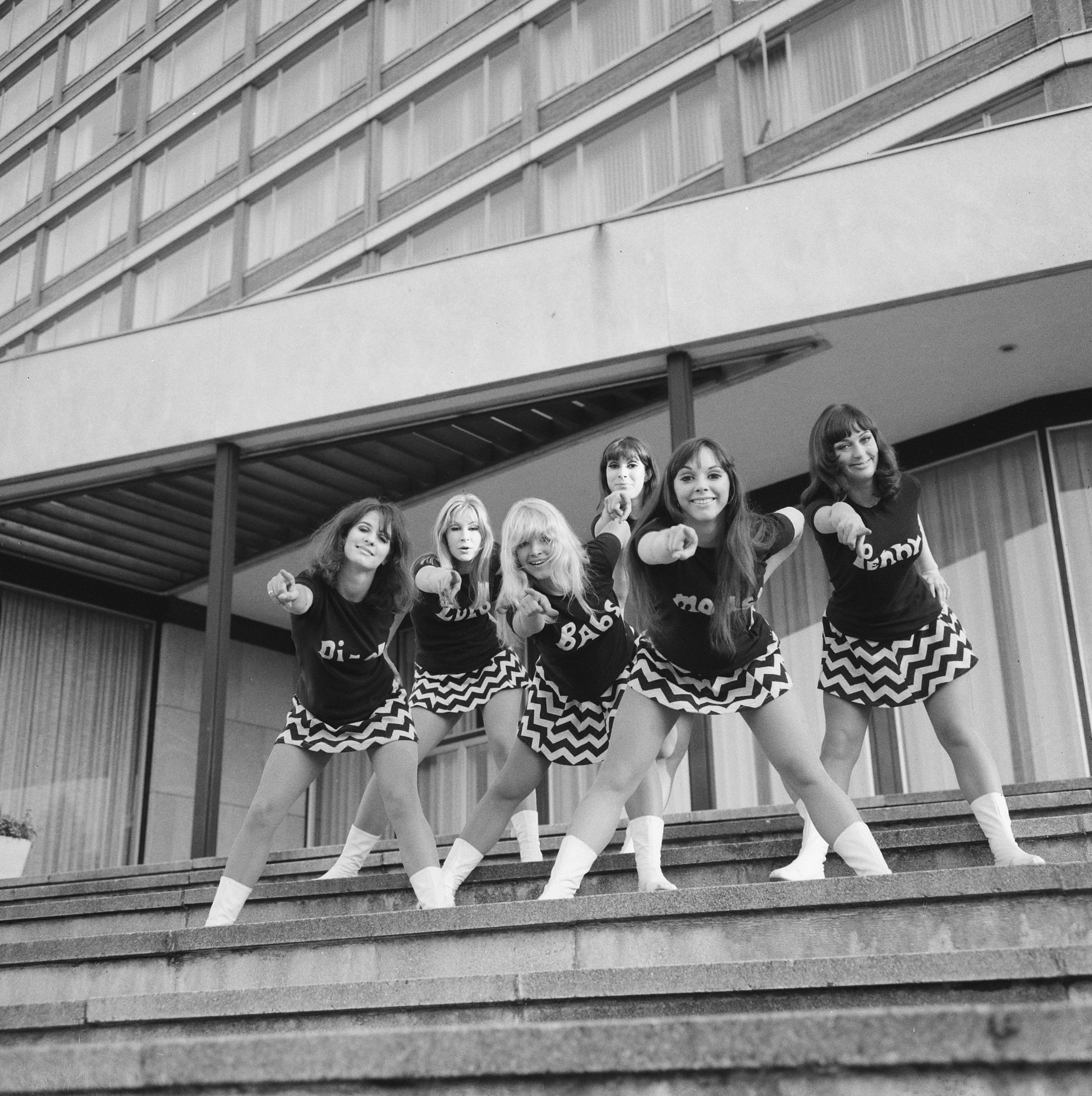 Beat Girls posing in front of the Amsterdam Hilton at the results of the Teen Beat Poll. From left: Dee Dee Wilde (Di-di), Lorelly Harris (Lulo), Babs Lord (Babs), Diane South (Diane), Flick Colby (Mouse) and Penny Fergusson (Penny)